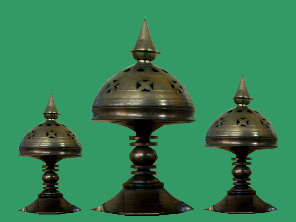 Xorai and Xophura are important part of culture in Assam. Any respectable offerings are made on these.